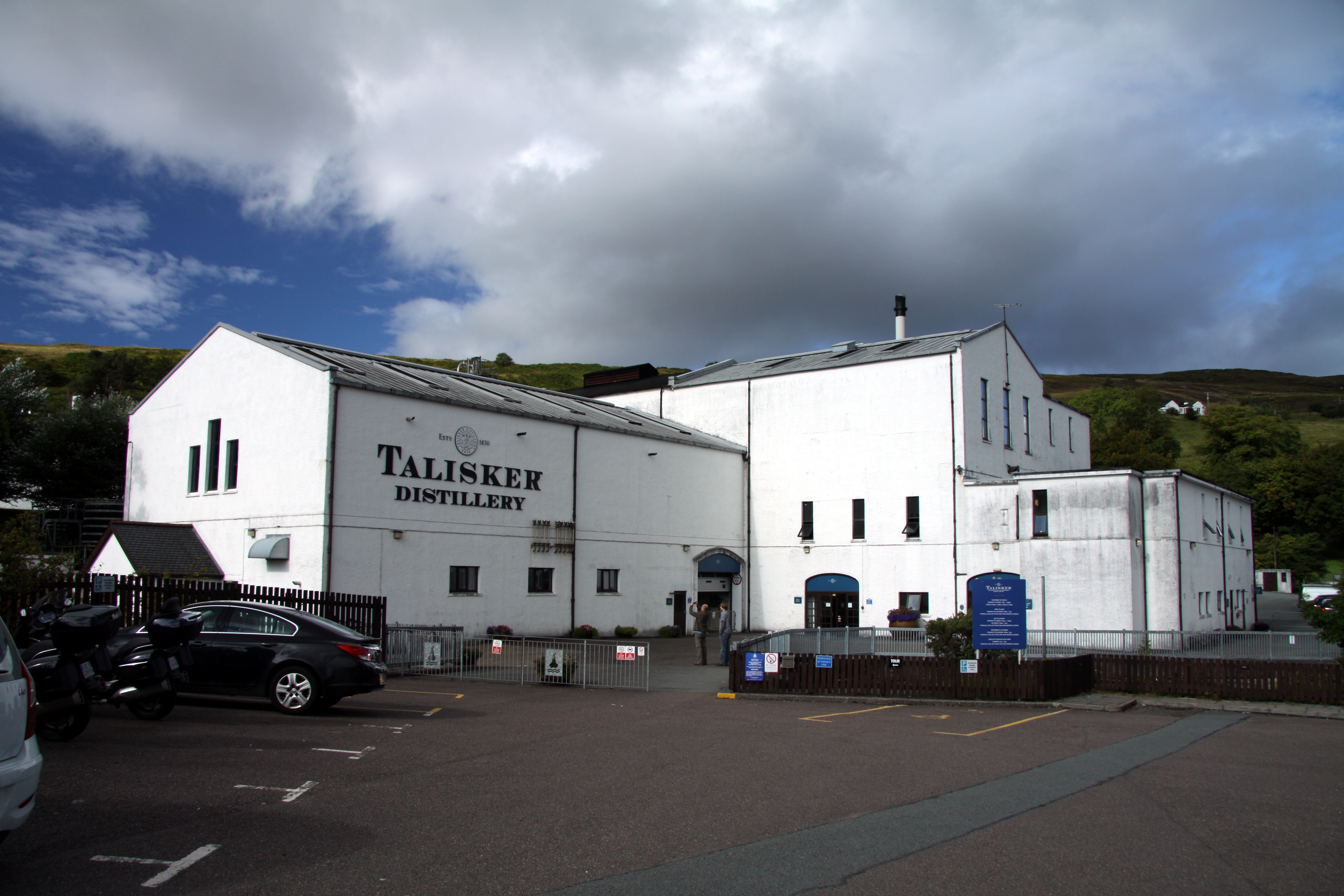 Talisker Destillery in Carbost village, Isles of Skye, Inner Hebrids, Scotland